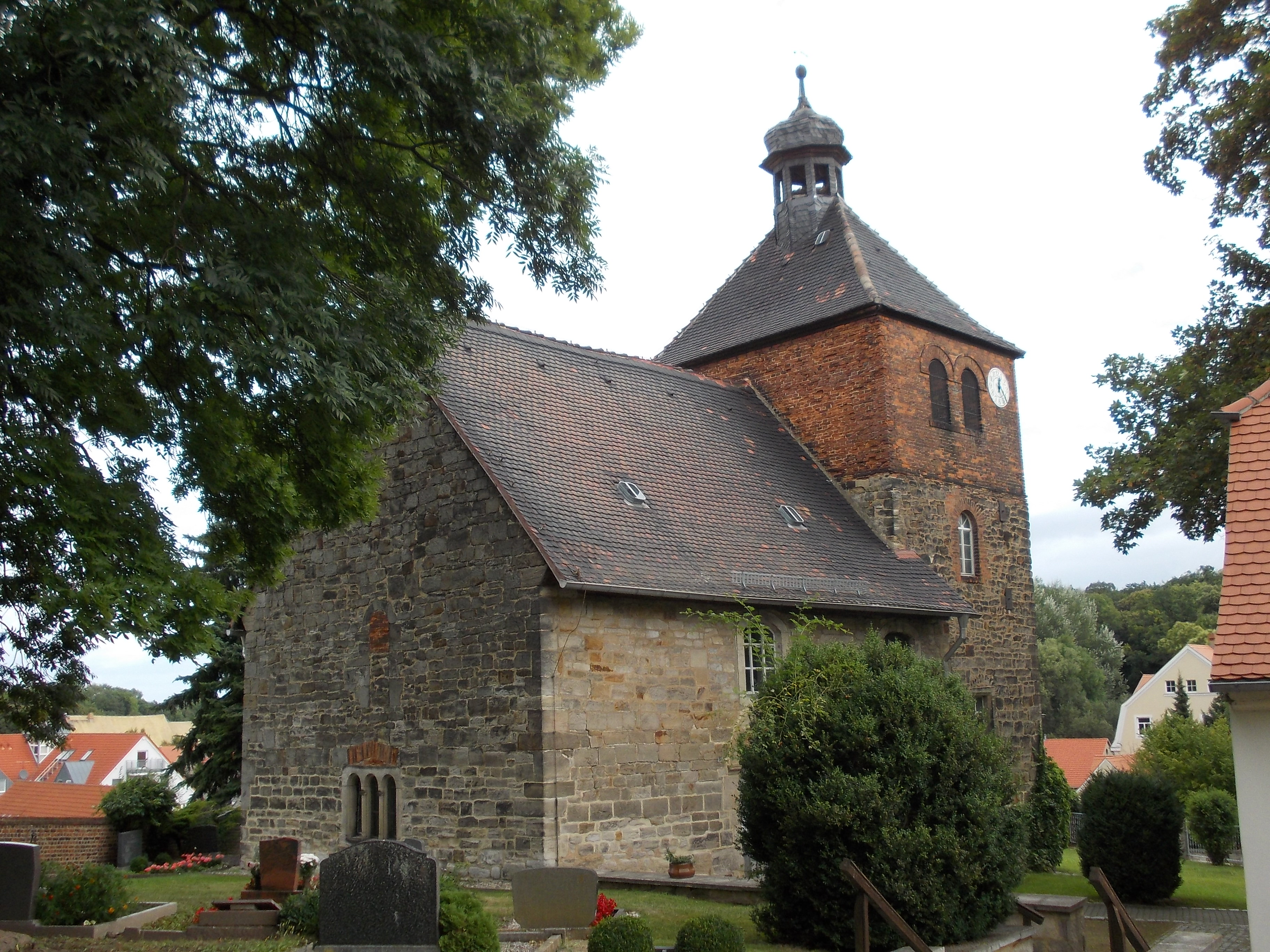 St. George's Church in Untergreisslau (Langendorf subdivision of the town of Weissenfels, district: Burgenlandkreis, Saxony-Anhalt)